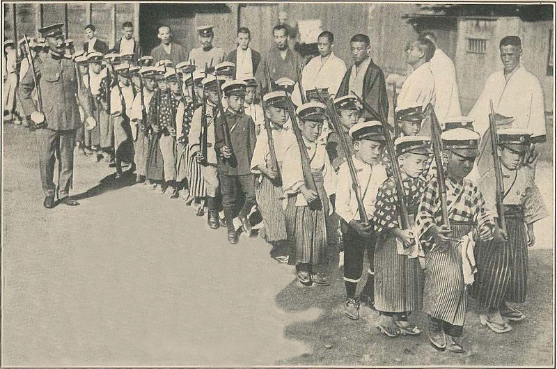 Leslie's Illustrated Weekly Newspaper January 13, 1916 World News in Pictures Japan drills Boy Scouts with rifles The Boy Scout movement has been rece